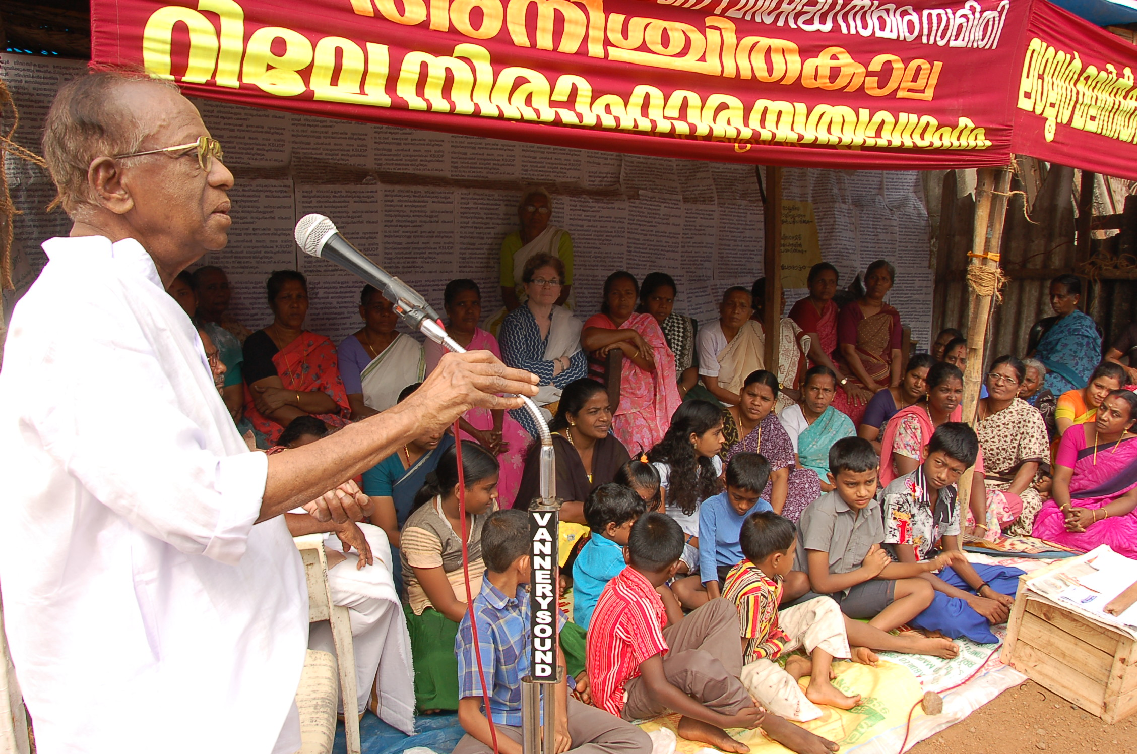 Sukumar Azheekod in laloor strike-2